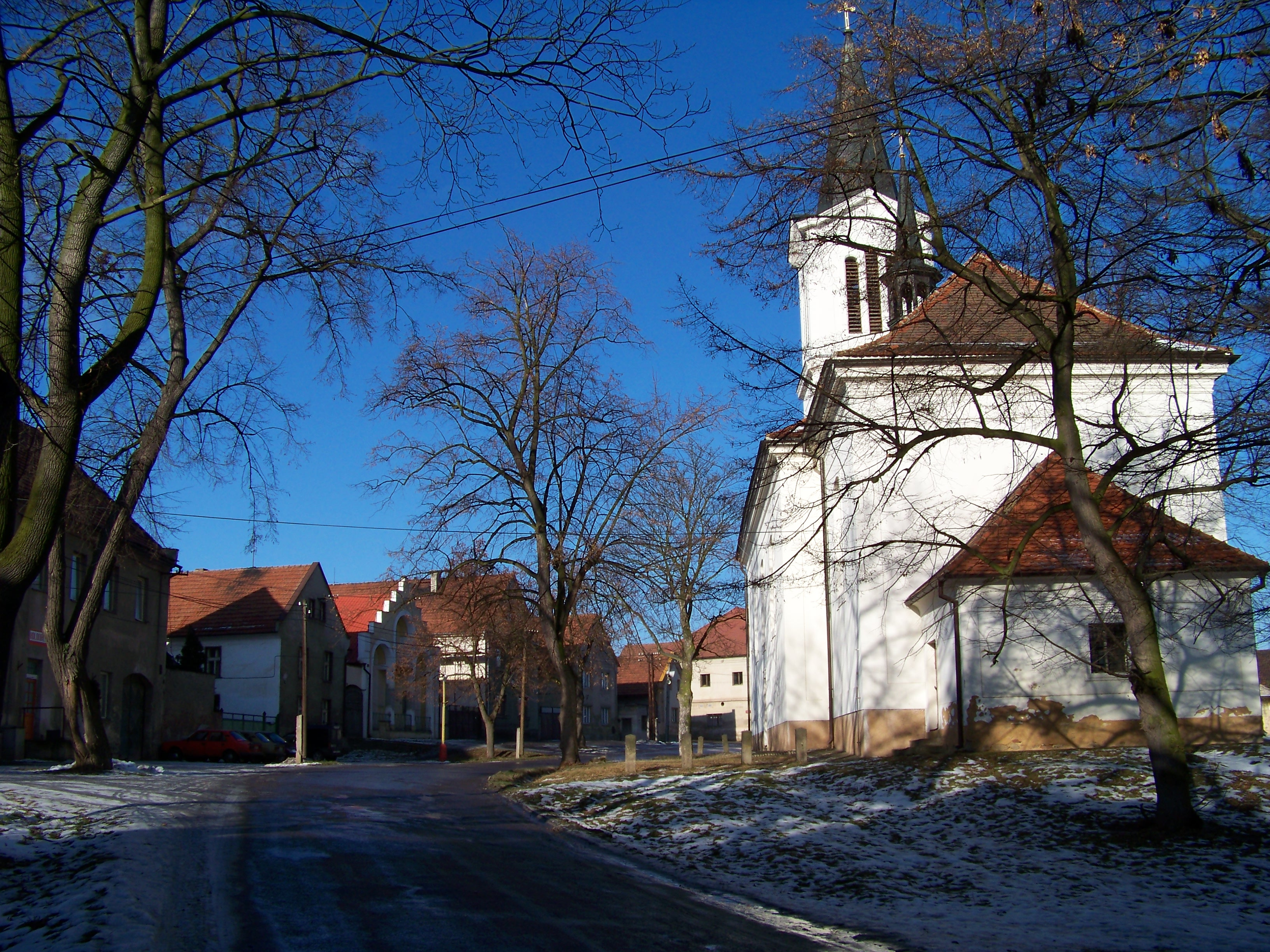 Mutějovice, Rakovník District, the Czech Republic.